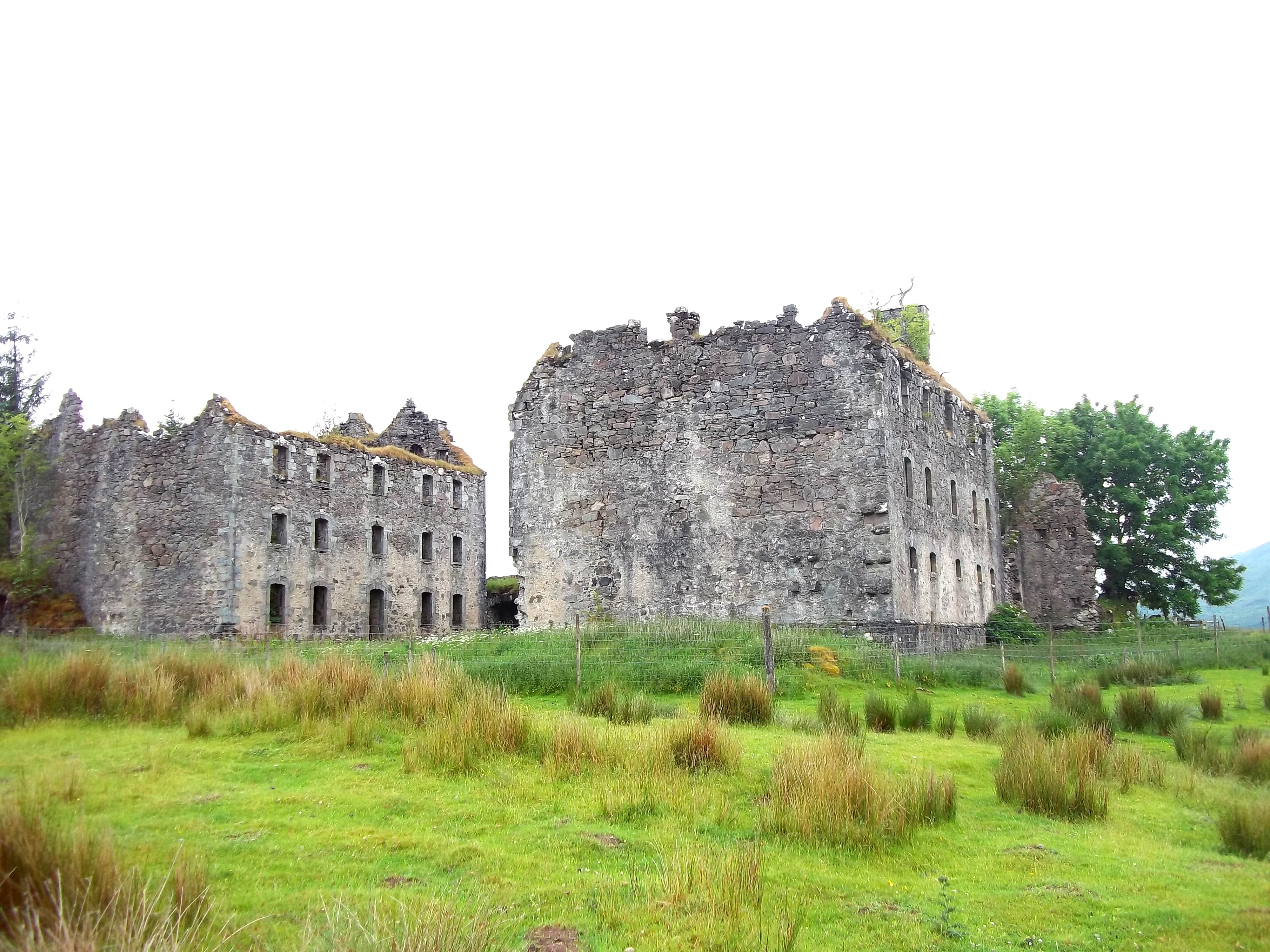 Bernera Barracks, constructed between 1717 and 1723, near Glenelg in Scotland.